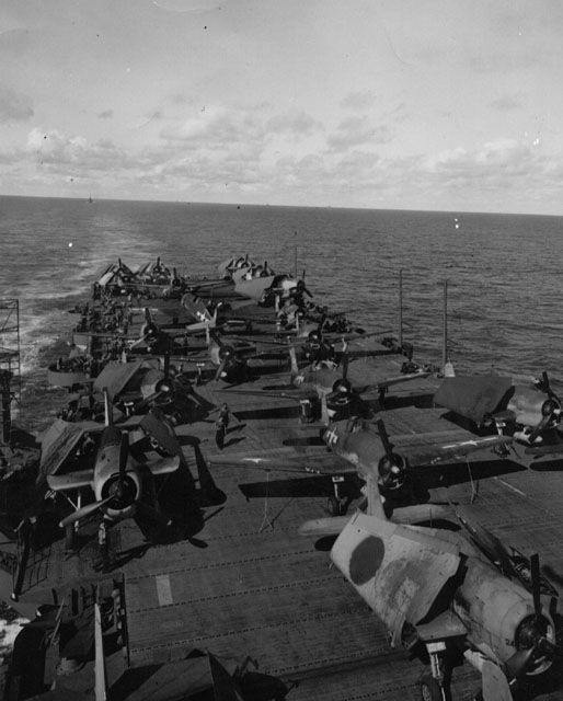 U.S. Navy Grumman F6F-3 Hellcat fighters and two Grumman TBF-1 Avenger torpedo bombers on the light aircraft carrier USS Independence (CVL-22) in 1943. Note that the F6Fs are in various states of repainting, as the omission of the right wing star and the addition of two white bars to the stars on the left wings and fuselage was ordered in June 1943. These had a red border which was changed to blue in August 1943.